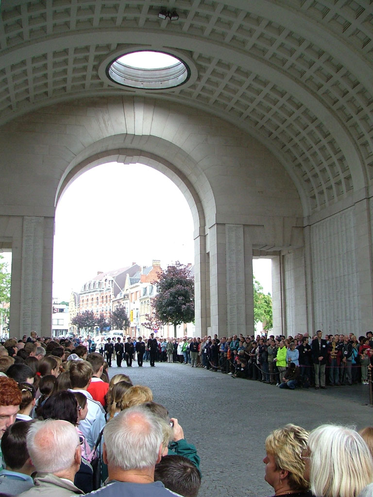 Menin Gate Memorial ceremony. Photo by Andrew P Clarke.